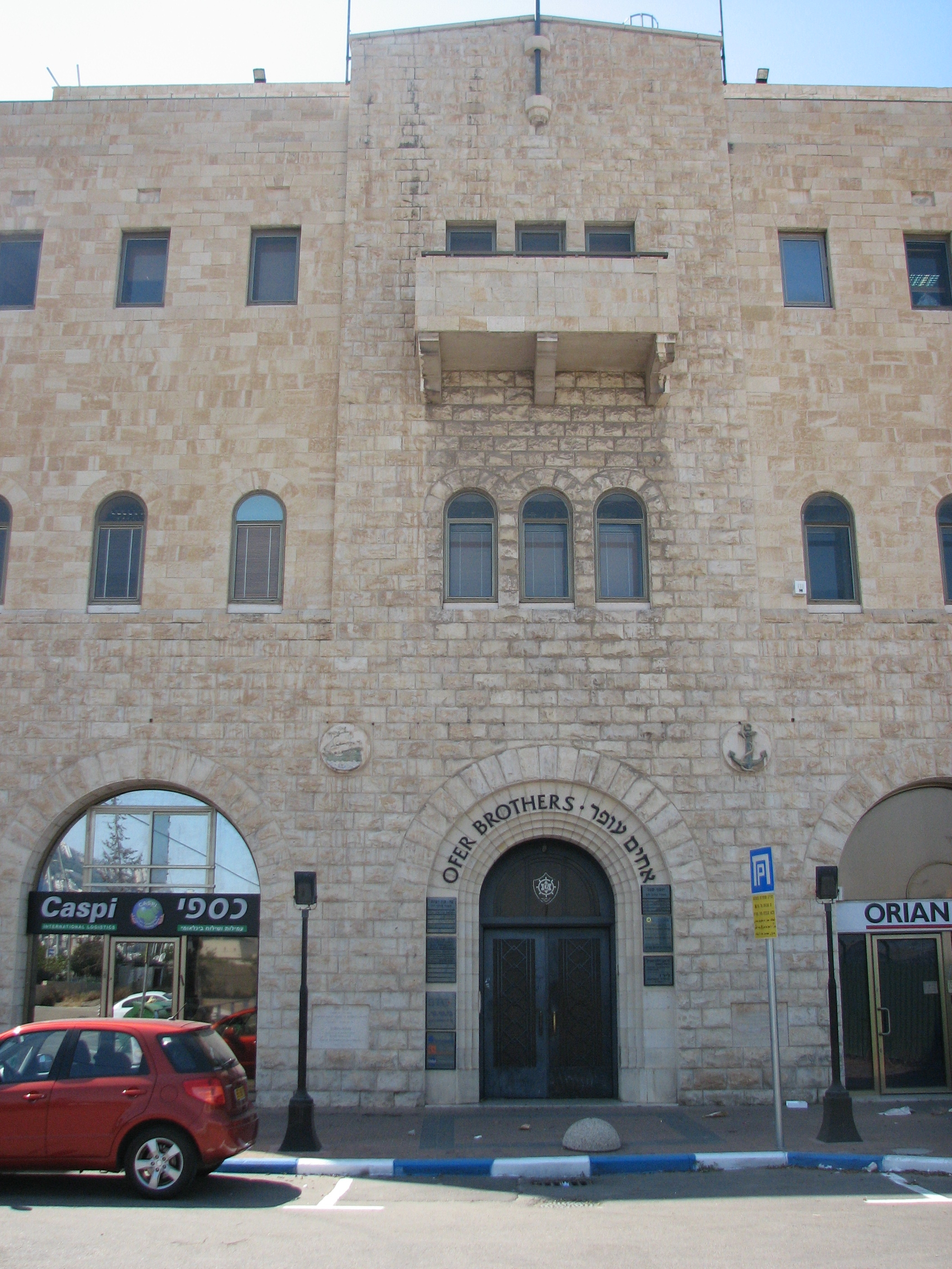 Stylish stone building, home to the Ofer Brothers Group on Captain Steve Street across from the port's Gate Three.